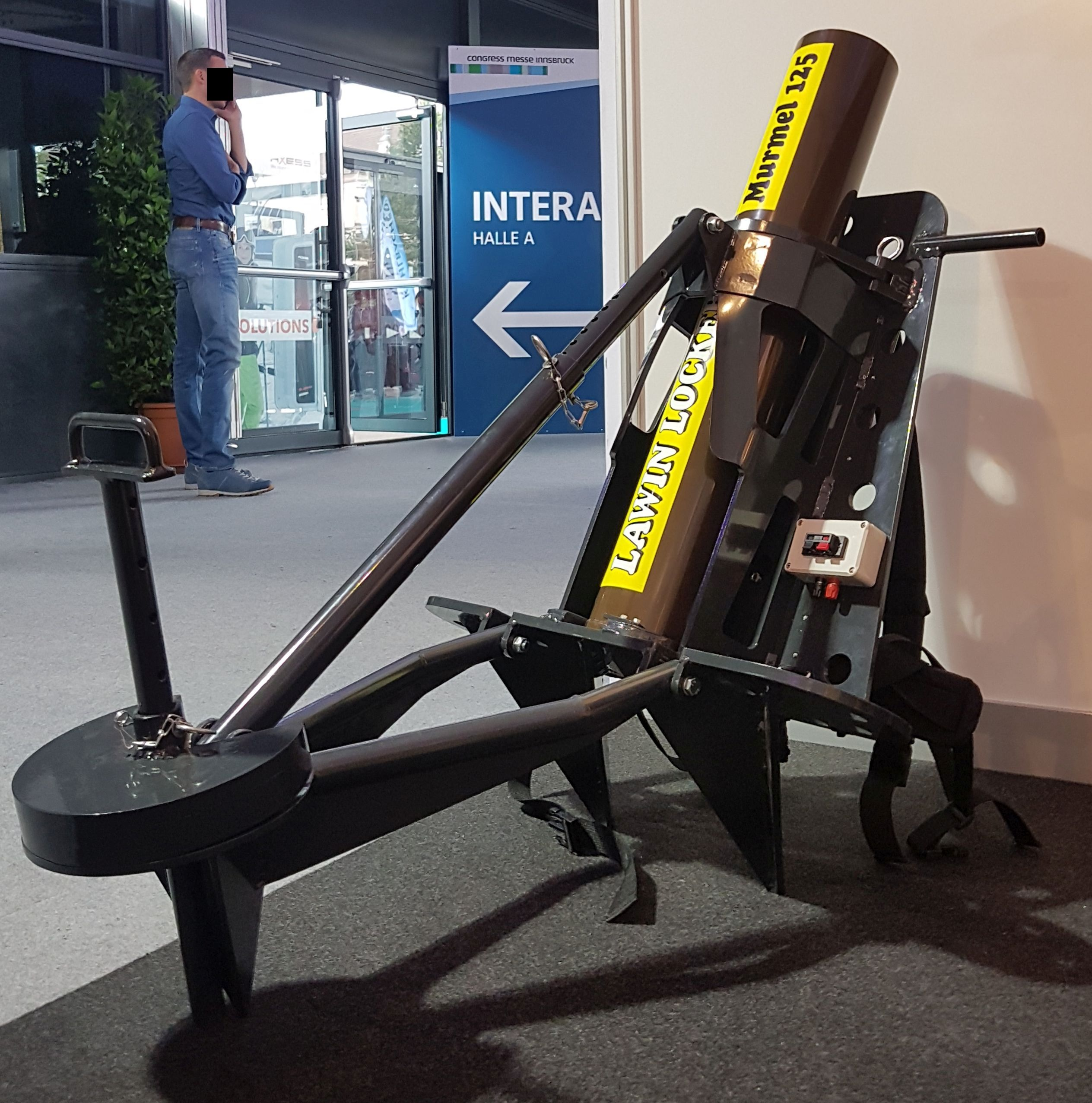 Lawin Locker, Type: Murmel 125 - A pyrotechnic, gun-like launcher for artificial avalanche triggering by a pyrotechnic active body.